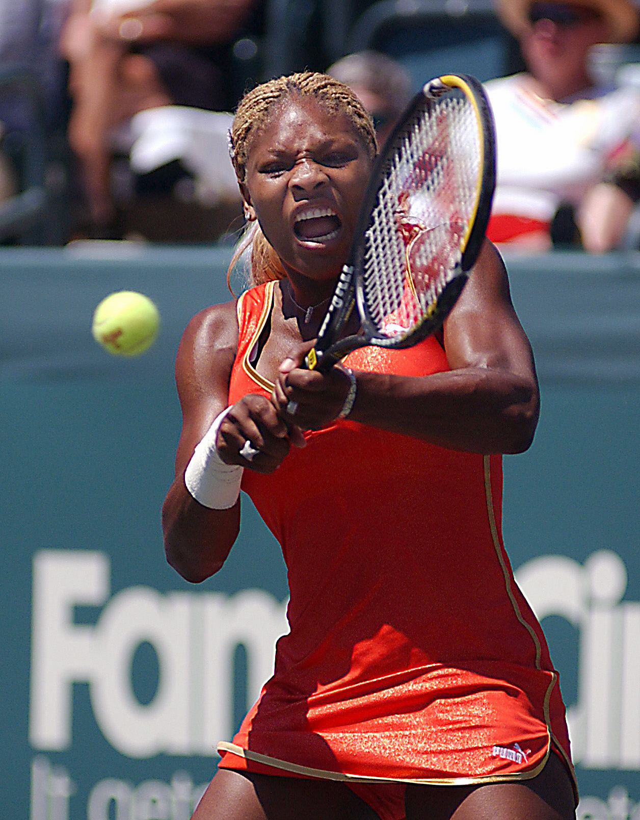 Third seed Serena Williams, USA returns a shot during her 7-6 (7-3), 6-3 victory over Natalie Dechy, at the Family Circle Cup Tennis Tournament on Daniel Island in Charleston, South Carolina.